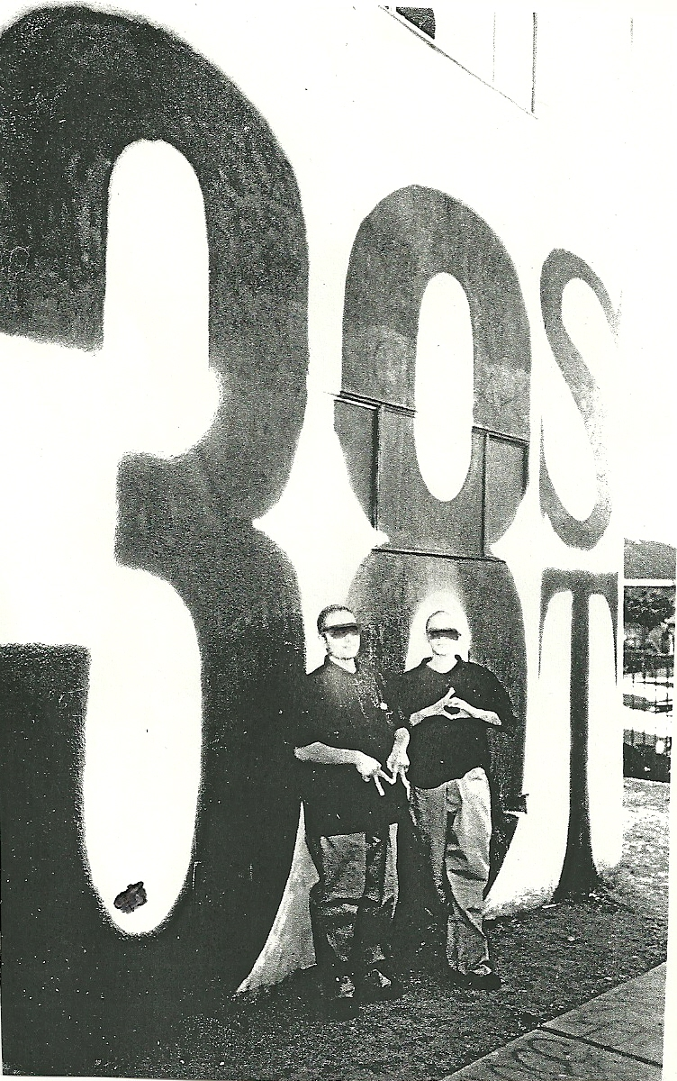 photo of two 38th street gangmembers